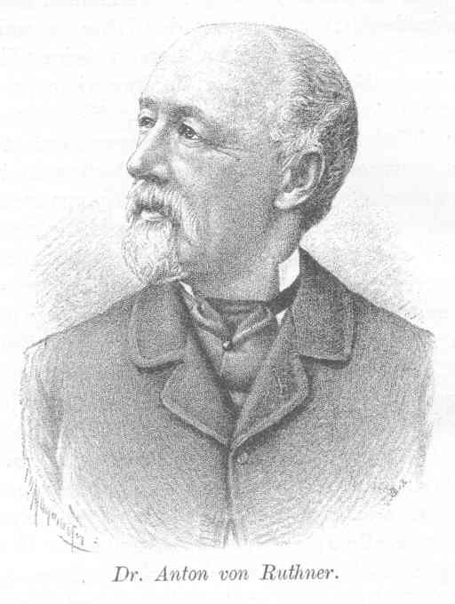 Scan from a historic book 1894